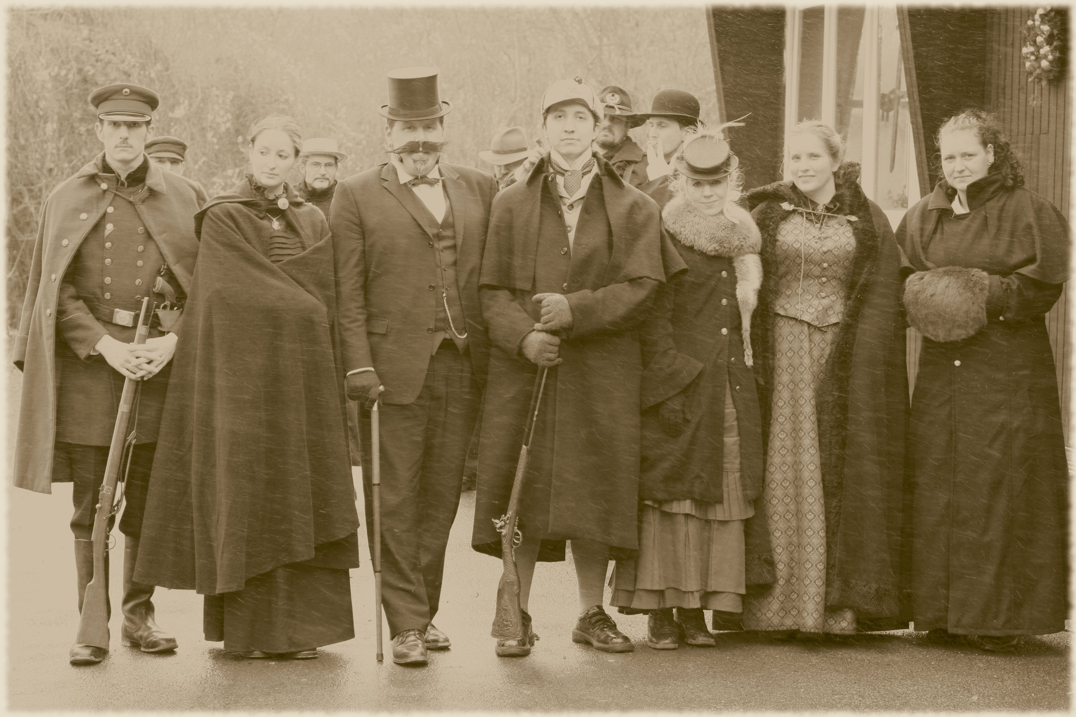 LARP: Players depicting a victorian setting, at "Morkay Greve"